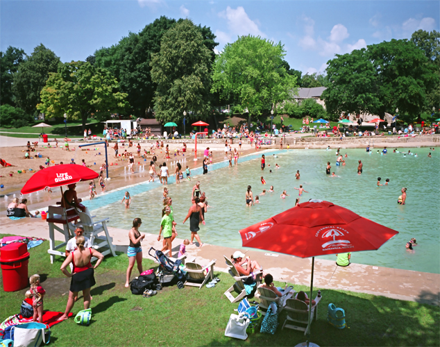 In Naperville Illinois one can experience the picturesque banks of the DuPage River by strolling along Riverwalk. A good place to start is on the east side of town where Webster Street stops at Jackson Avenue. Heading back toward town your westward trek will soon present a lovely wooden bridge next to the charming Dandelion Fountain. You’ll next see Free Speech Pavilion and the Riverwalk Amphitheater. Walking over Eagle Street you’ll witness Landforms Sculpture followed by another covered bridge which, upon crossing, one may purchase tasty treats at Riverwalk Eatery. To your left you’ll see paddlers out on Quarry Lake paddling paddleboats amid flocks of geese and ducks. Continuing west you’ll soon be in the shadow of the towering Moser Tower with its 72 bell Millennium Carillon which treats music lovers to Summer concerts as they picnic on nearby Rotary Hill. Beyond the Carillon you can continue walking westward and cross over a bridge to head back toward town. You will soon come upon Centennial Beach, a man made beach that is annually enjoyed by thousands of happy bathers, both tourists and locals.